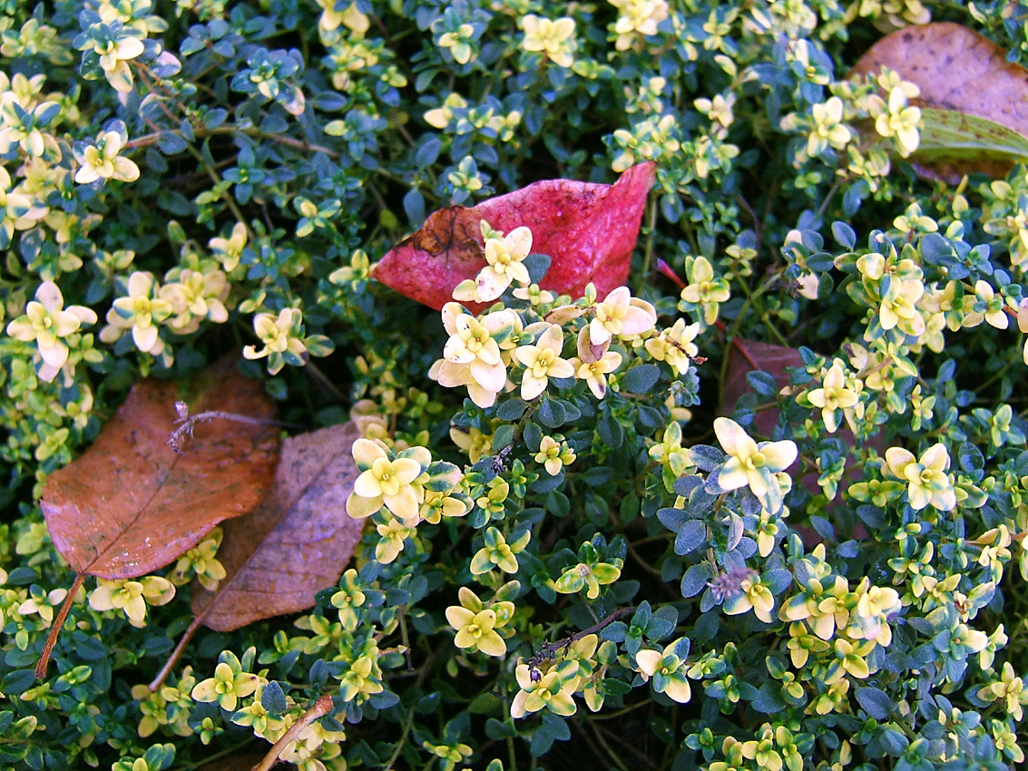 lemon thyme